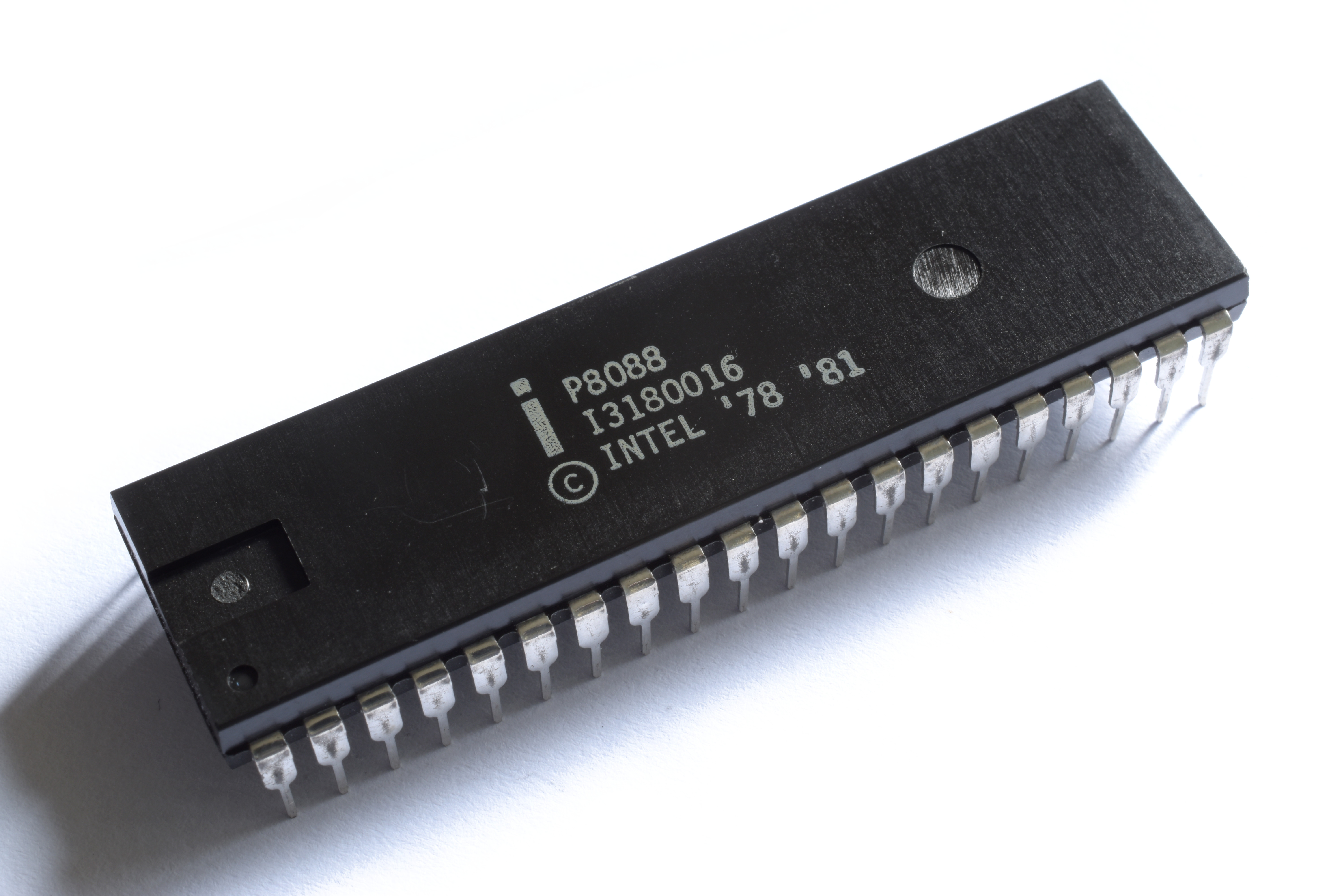 An Intel P8088 processor.